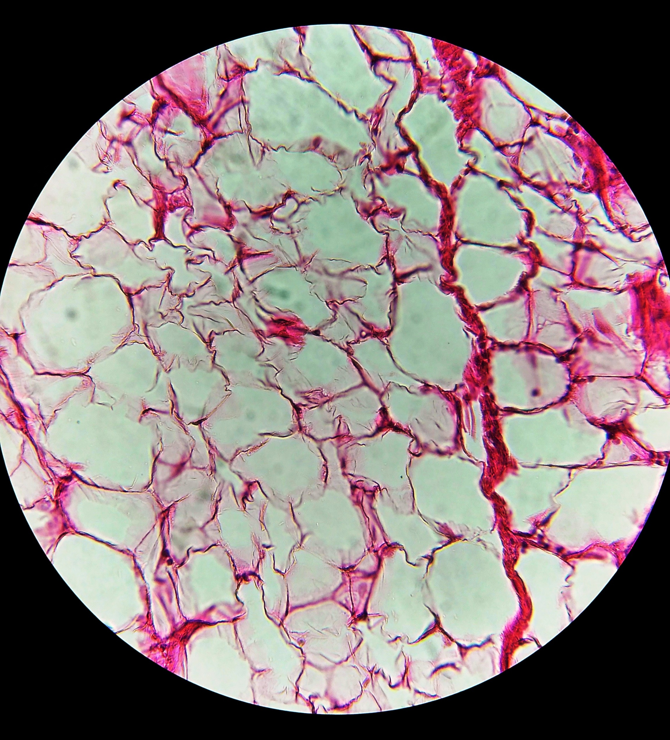 White adipose tissue (HE)